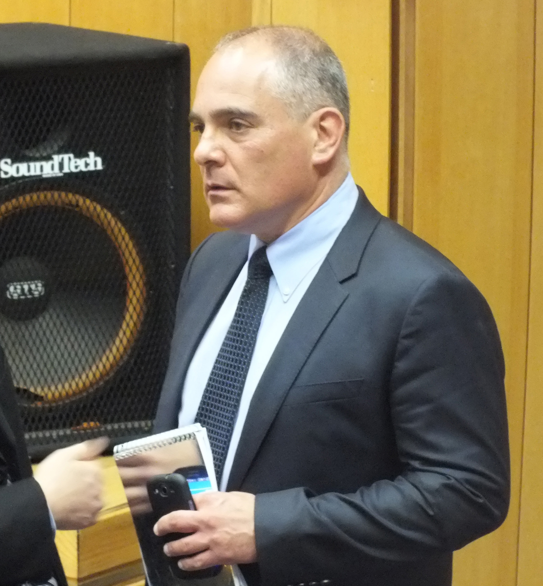 Ronen Hoffman MK.